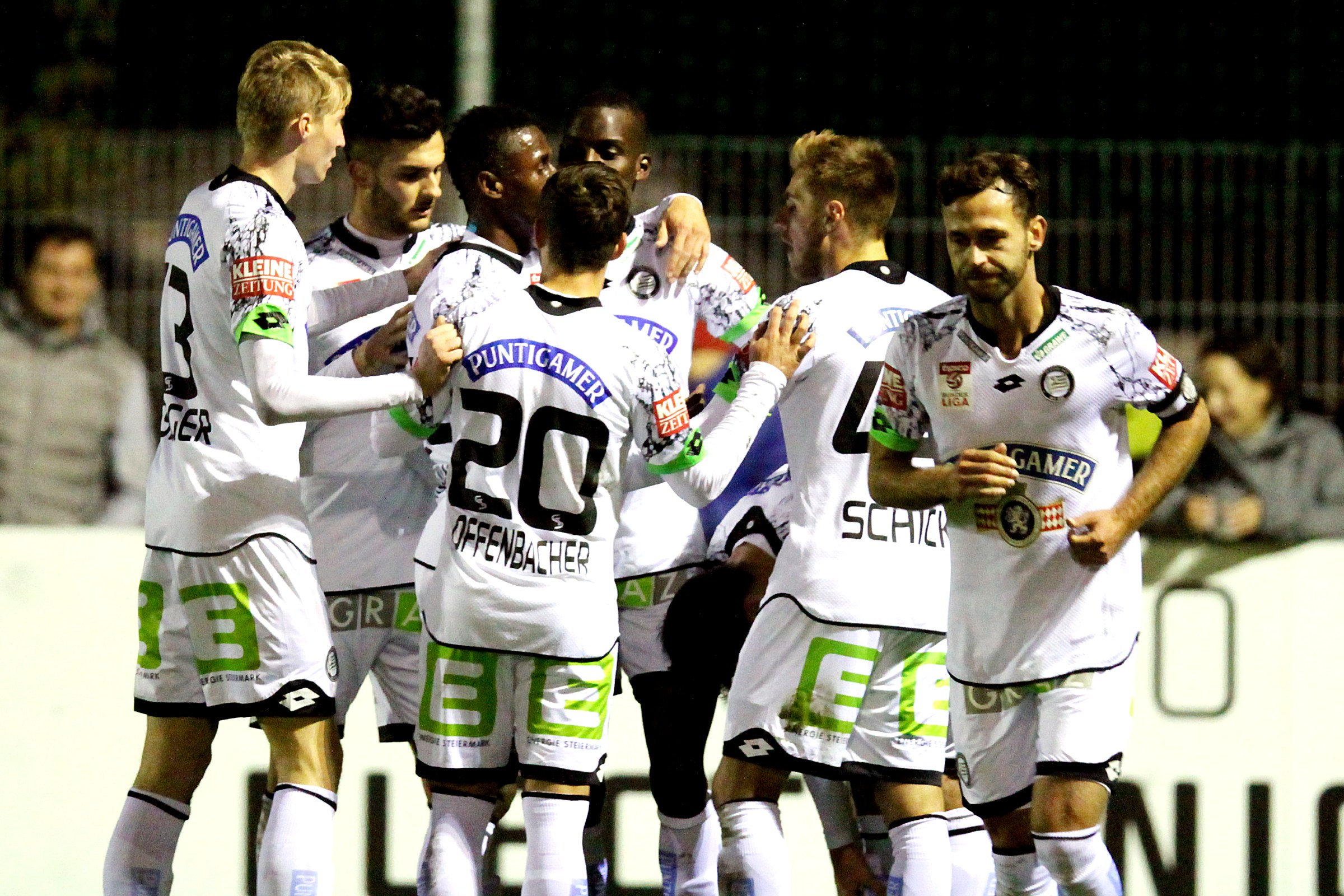 Austrian Cup – ASK Ebreichsdorf (blue shirts) vs. SK Sturm Graz (white shirts) on 2015-10-27 in Ebreichsdorf, 2-3 (0-1) – The photo shows the players of SK Sturm Graz are jubilant about the winning-goal for 2-3. From left to right Simon Piesinger, Kristijan Dobras, Josip Tadic, Wilson Kamavuaka. Daniel Offenbacher, Bright Edonwonyi, Thorsten Schick and Michael Madl.